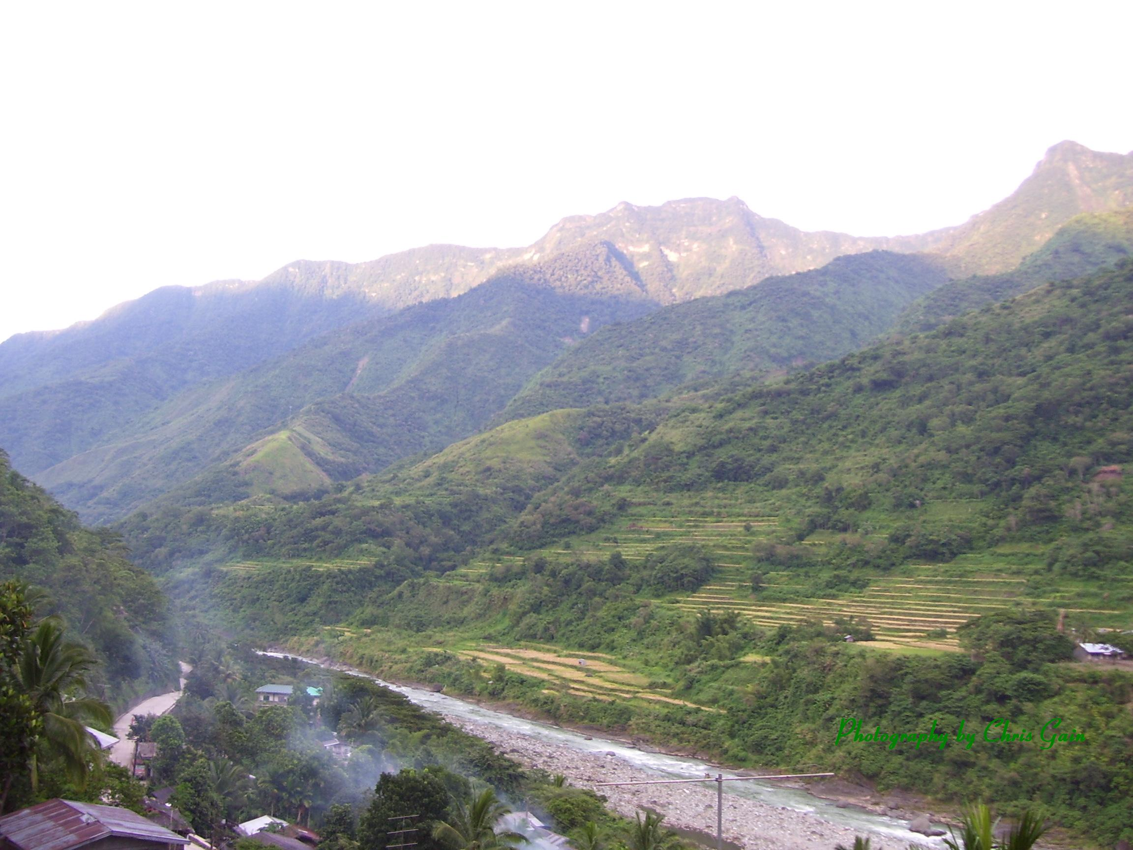 Sleeping Beauty, Kalinga. Mountain viewed from Tinglayan, Kalinga, Philippines, at sunset 24 July 2008.